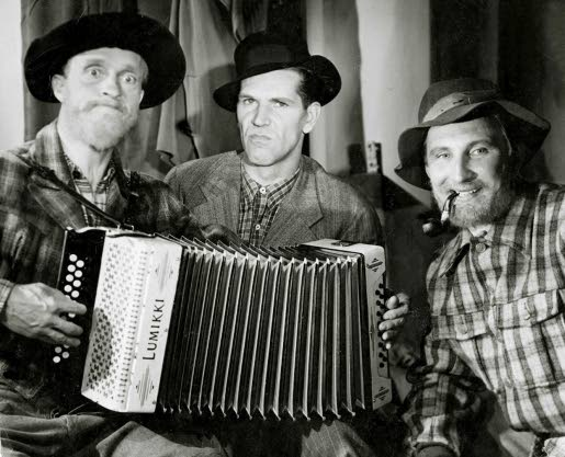 Finnish musicians Esa Pakarinen, Reino Helismaa and Jorma Ikävalko.